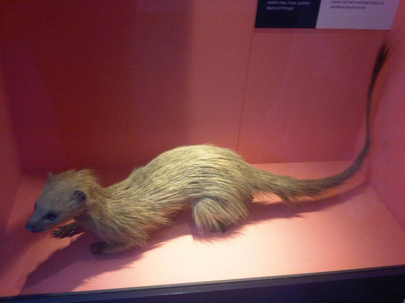 Taxidermied Egyptian Mongoose, also known as the Ichneumon (Herpestes ichneumon) at the Natural History Museum in London, England.